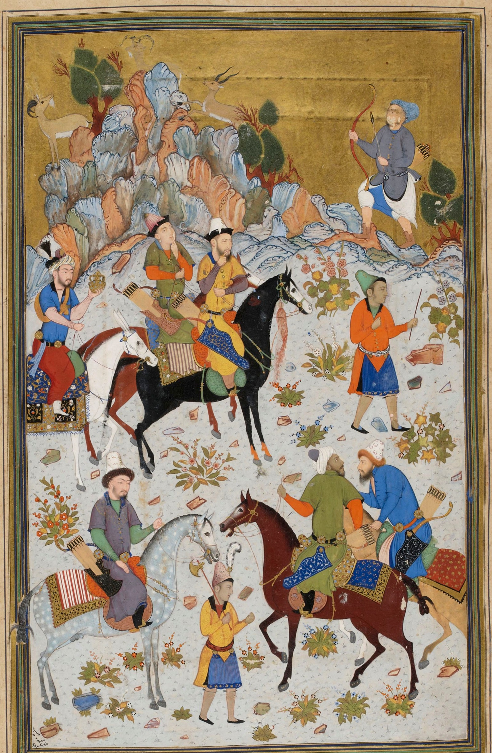 Mahmud Muzahhib. Sultan Sanjar and an Old Woman (left part), Nezâmi, Makhzan al-asrâr 1538-46, Bukhara, BNF